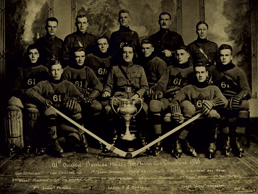 Ice hockey team Winnipeg 61st Battalion of the Manitoba Hockey League in 1916 with the Allan Cup.Standing, left to right: Joseph Douglas Moulden, James Albert Clark, Emory William "Spunk" Sparrow, Neil Bruce MacLean, William Alexander Simpson.Sitting, left to right: Reeve Wilson Morrison, John Clark Mitchell, Harold Edward Joseph "Bullet Joe" Simpson, David Alfred Morrison, Francis John Murray, John William "Crutchy" Morrison, Roderick Angus Smith, John Wilberforce "Jocko" Anderson, Alexander Edward Romeril.